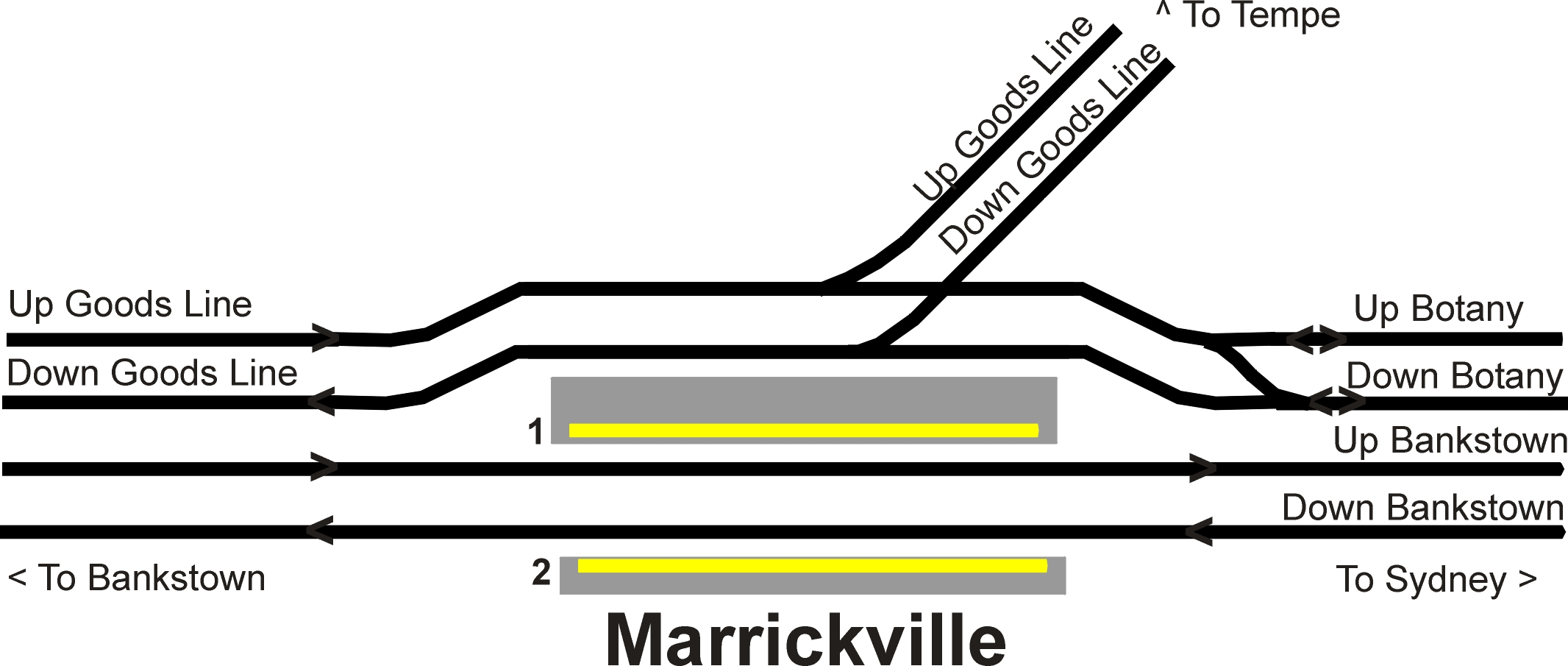 Track layout at Marrickville railway station, Sydney, Australia